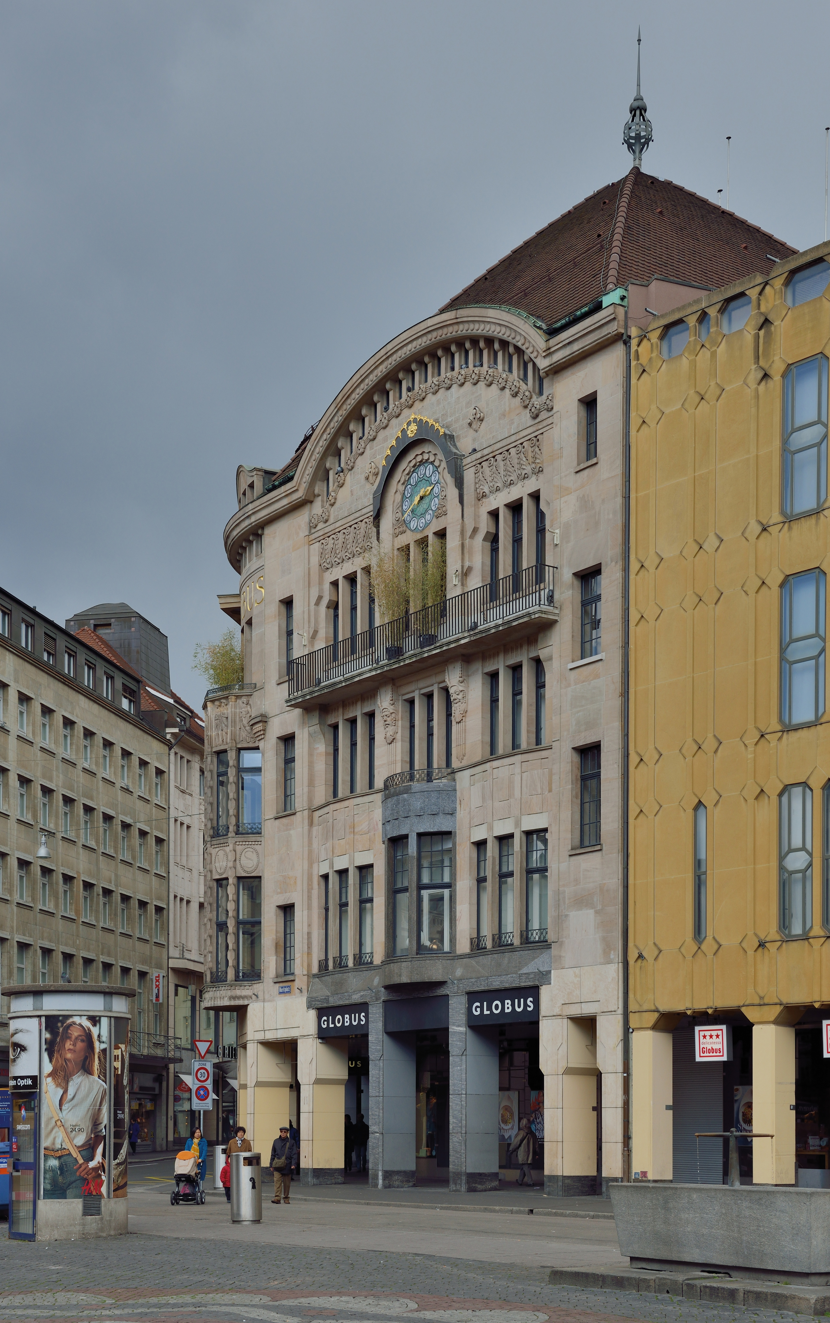 Basel: department store "Globus"